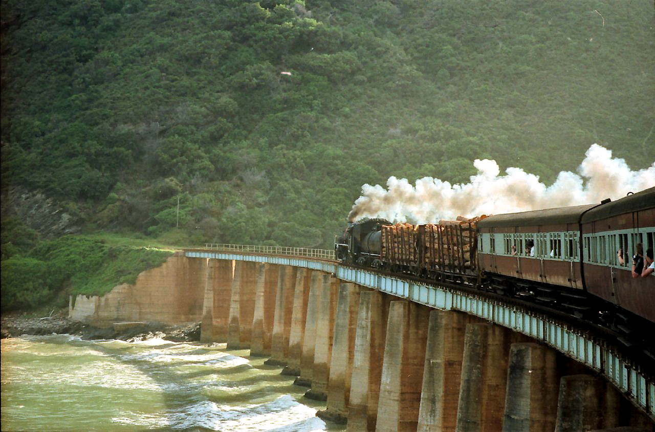 Outeniqua Choo Tjoe. Scanned from a negative. Taken during our honeymoon in Wilderness, South Africa in March 1996. This bridge is reknown all over the world - the train has been known to stop and back up especially for photographers. Taken with my Pentax Spotmatic SLR - more info on the camera at Pentax Spotmatic.